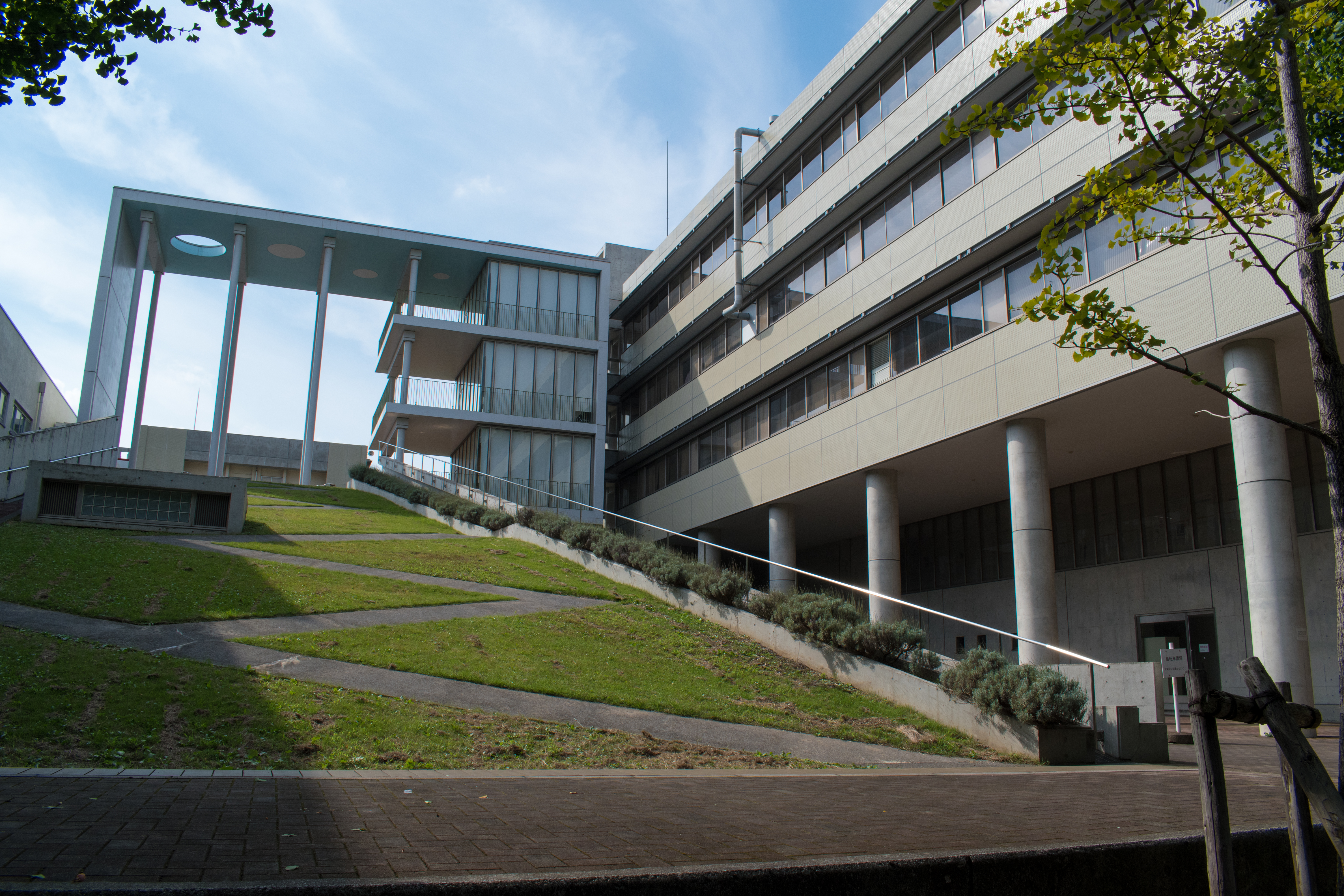 New Building 1, Koganei Campus, the Tokyo University of Agriculture and Technology.